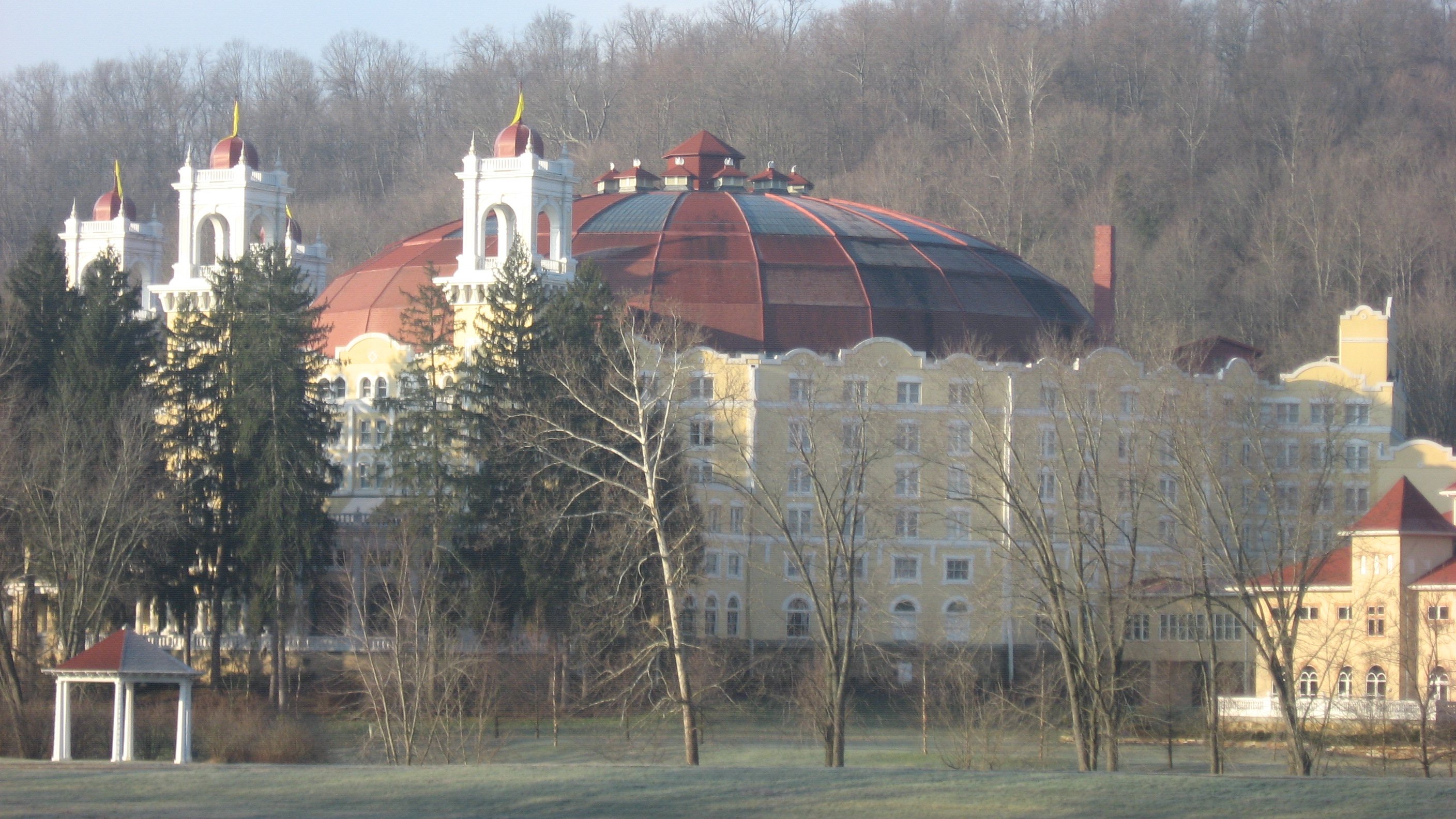 Dawn view of the dome at the West Baden Springs Hotel complex, located on the western edge of West Baden Springs, Indiana, United States. Built in 1901, it has been declared a National Historic Landmark.